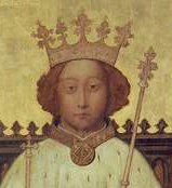 King Richard II of England (1367 - 1400). Head of the famous portrait shown in Westminster Abbey, London, where Richard is buried. It is the work of an unknown master, and the date is usually given as about 1390. This painting is the earliest known portrait of an English monarch, according to the Abbey's website.